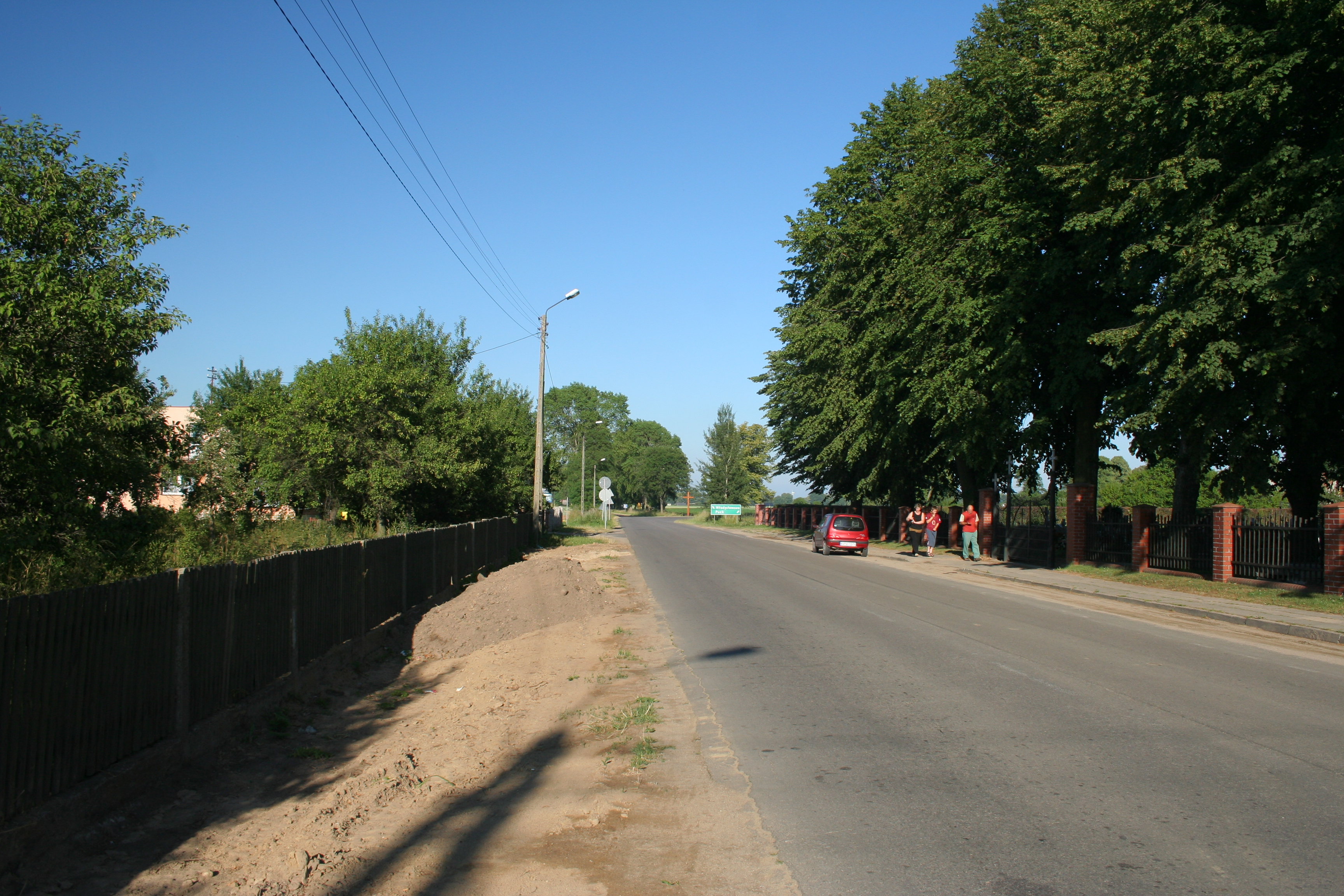 Voivodeship road 213 in Starzyno.